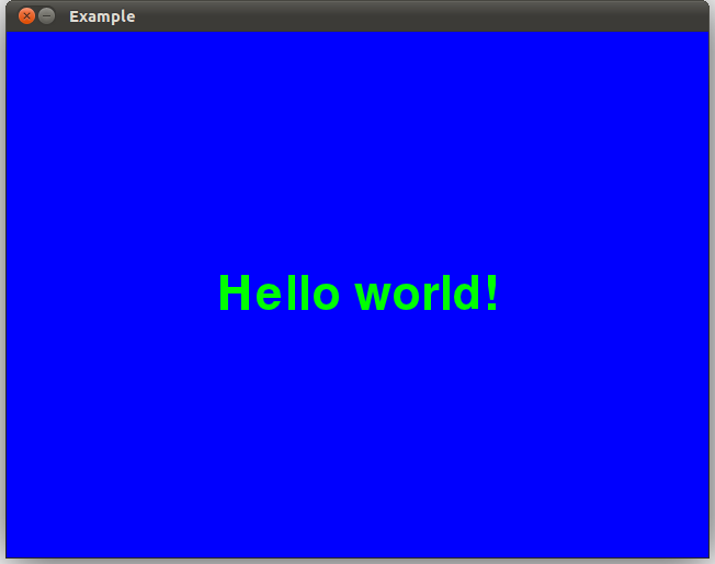 Example program Hello World created in Python with module Pygame. Source code of program can be found in article Pygame on Czech Wikipedia. Program is launched in system Ubuntu 11.04.